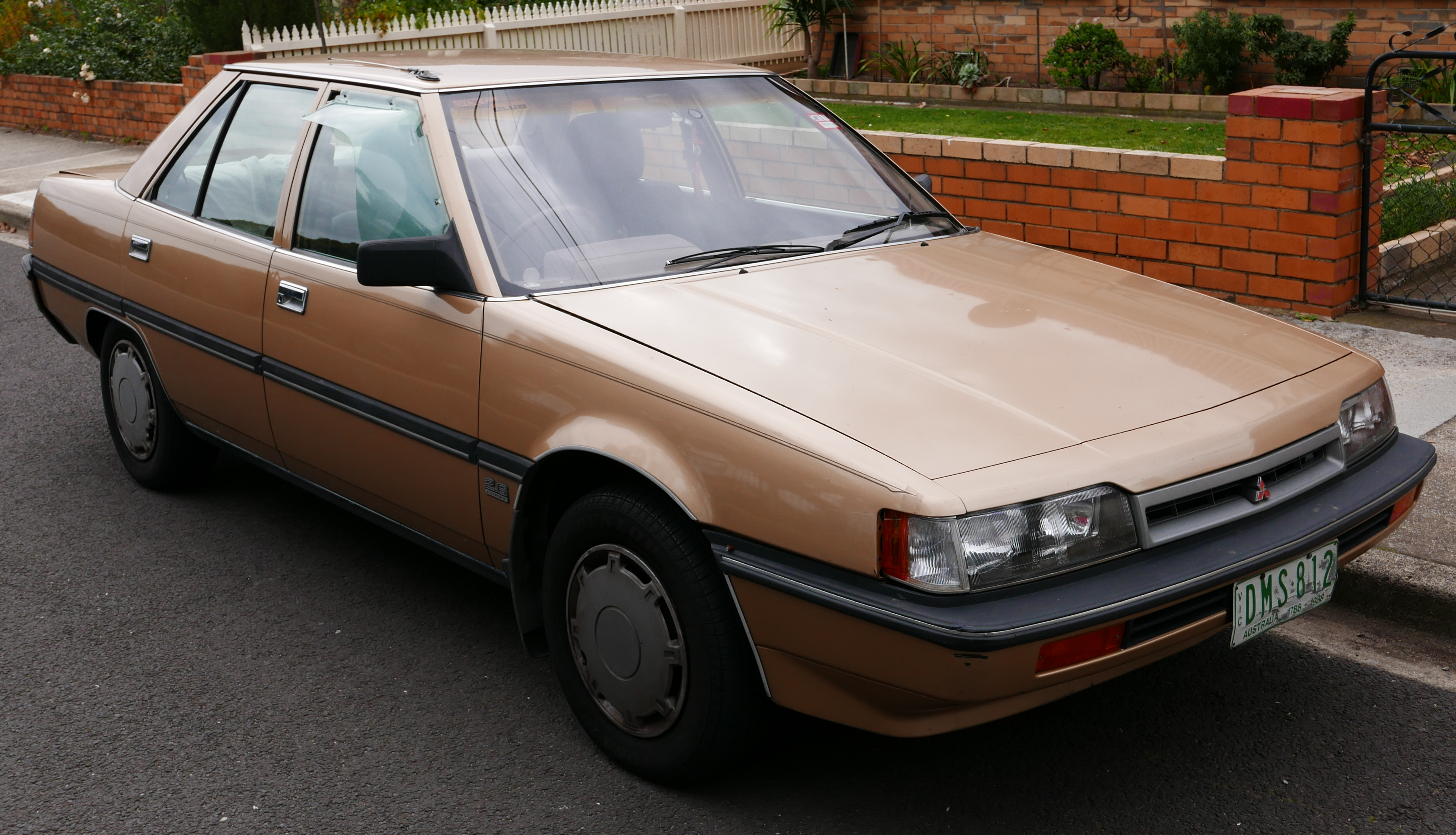 1988 Mitsubishi Magna (TN) GLX sedan. Photographed in Northcote, Victoria, Australia. Vehicle registration enquiry results Jurisdiction Victoria Registration DMS812 Chassis code Not available Engine code V571W44691 Compliance date Not available Year of manufacture 1988